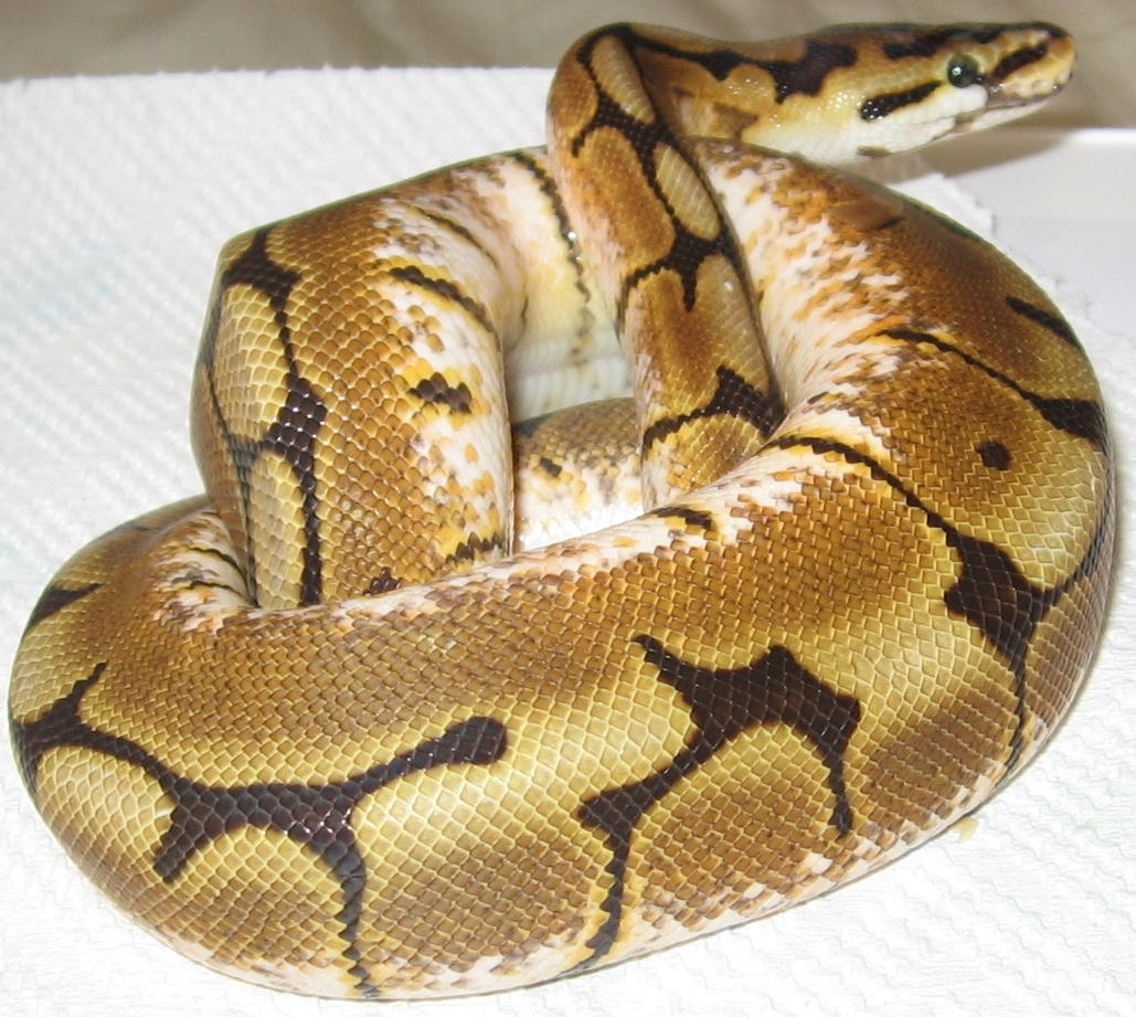 Juvenile male spider (spider-webbed) morph ball python. This is a dominant pattern mutation.